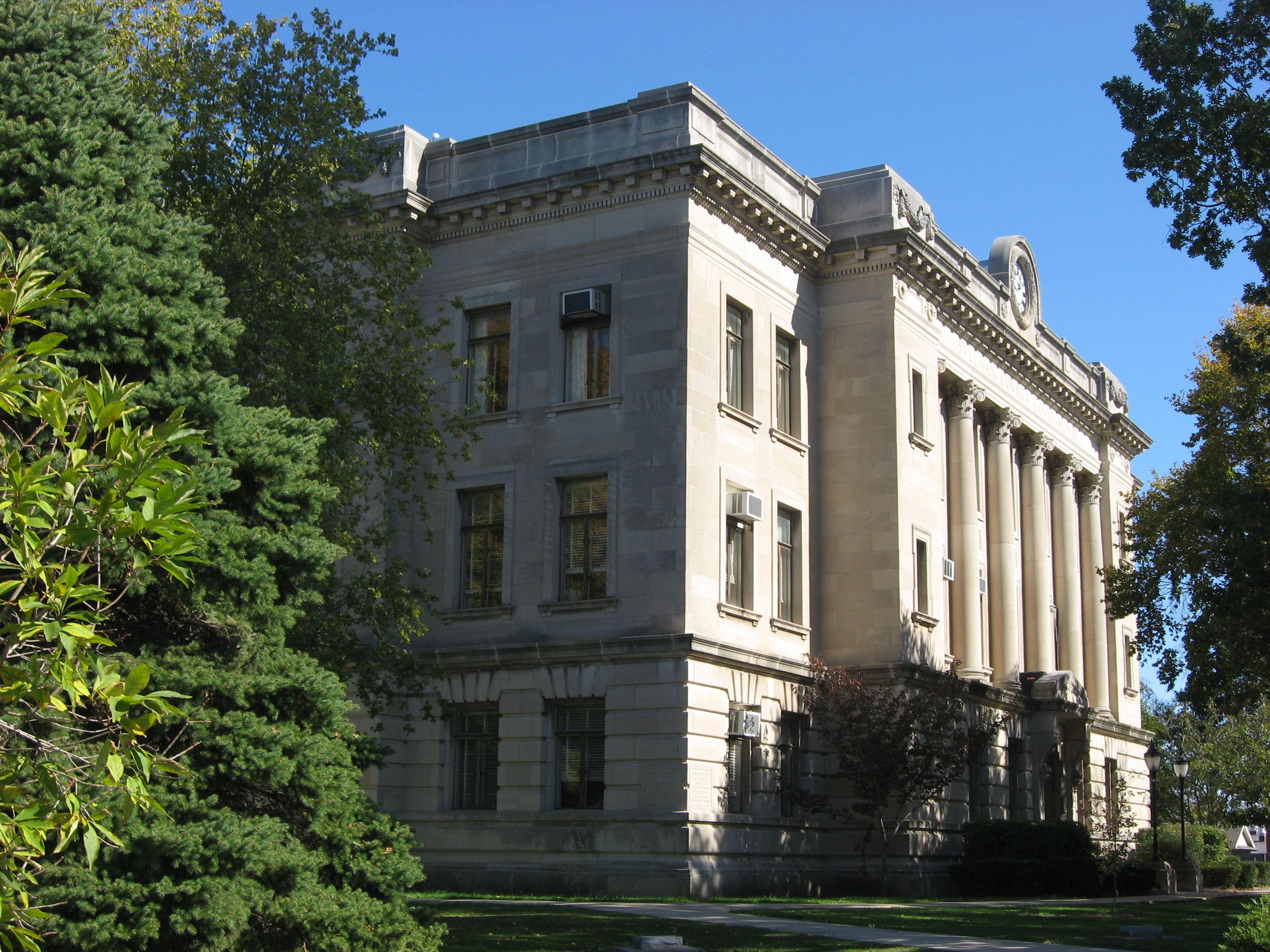 Western and southern façades of the Sullivan County Courthouse, located on Courthouse Square in downtown Sullivan, Indiana, United States. Built in 1928, it is listed on the National Register of Historic Places.